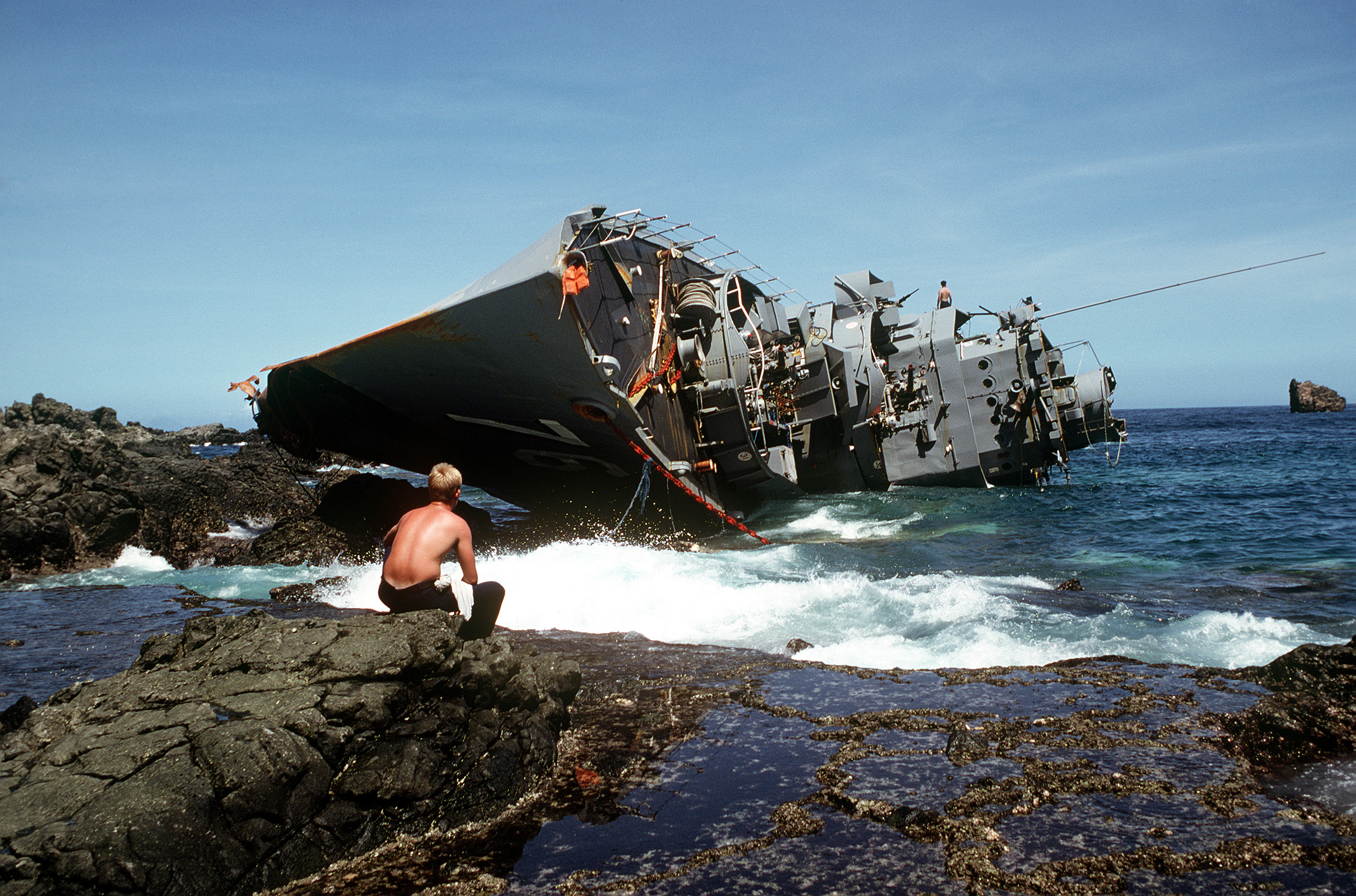 22 September 1981: Cayalan Island, Philippines - A view of the capsized Philippine frigate BRP Datu Kalantiaw (PS-76) (ex-USS Booth (DE-170)). In the foreground, a crewman from the U.S. Navy ammunition ship USS Mount Hood (AE-29) takes a break from salvage operations. Datu Kalantiaw was lost during Typhoon Clara, 21 September 1981. 79 of 97 crewmember died.